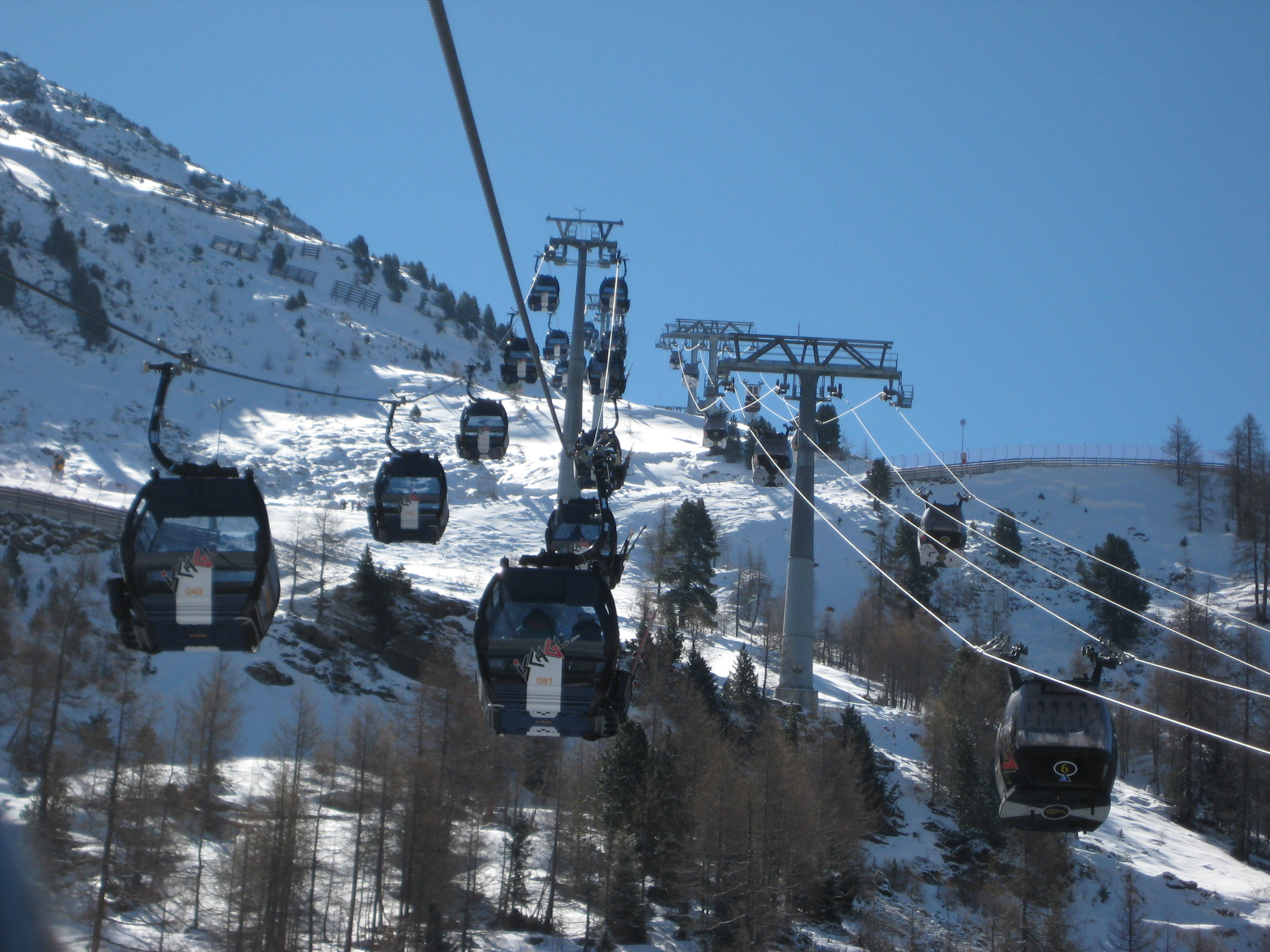 Cablecars of the Fimbabahn (left) and the Silvrettabahn (right) in Ischgl, just before the top station at the Idalp.